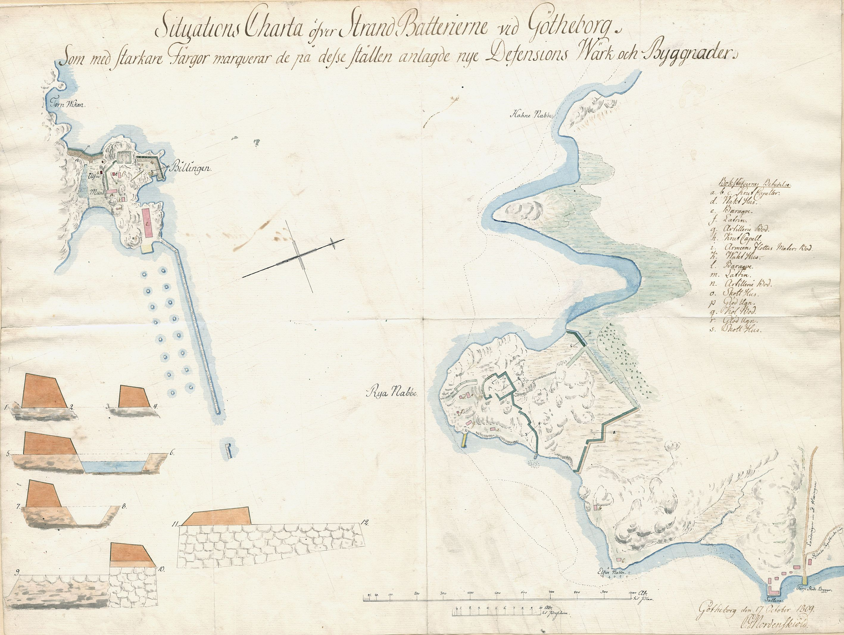 Plan and profile of gunbatteries Lilla Billingen and Rya Nabbe in Gothenburg harbour, Sweden, in 1809.